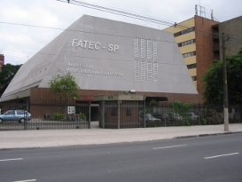 Fachada da Fatec São Paulo